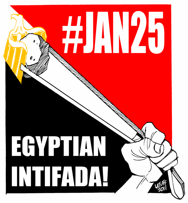 2011 Egyptian protests